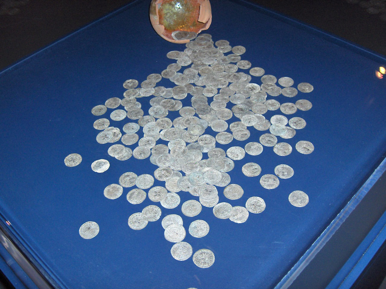 Flemish coins (between 1373 and 1380) found at the archeological site of Walraversijde; near Oostende, Belgium